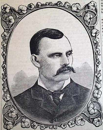 Drawing of Joe Quest